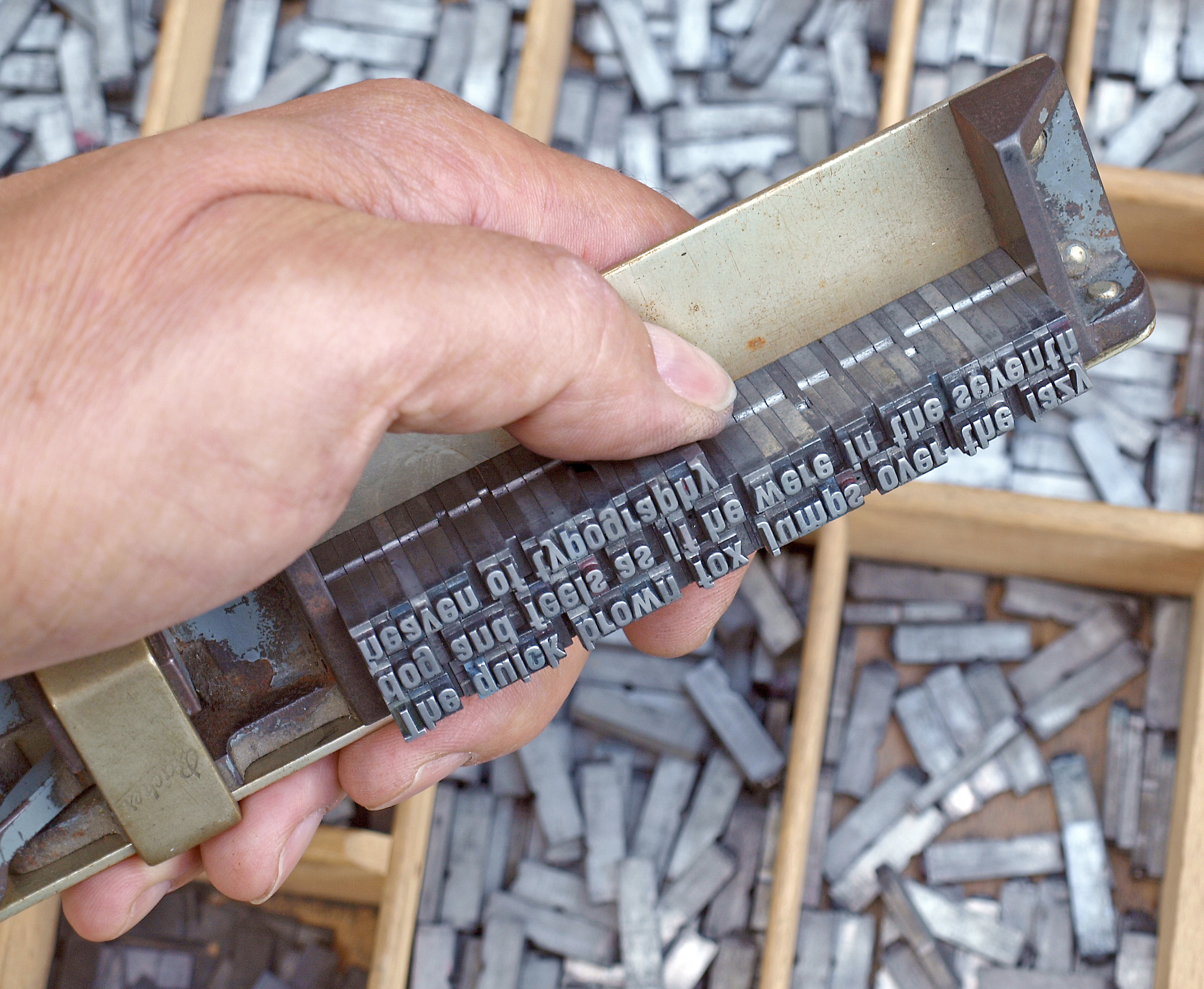 Manual Typesetting, "The quick brown fox jumps over the lazy dog and feels as if he were in the seventh heaven of typography"